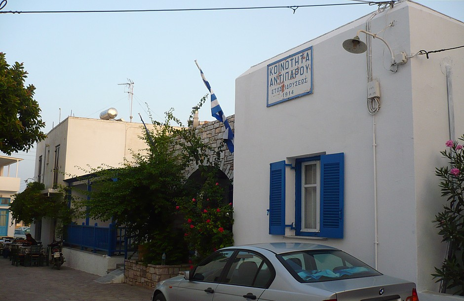 The Municipality Hall of Antiparos alongside the medical center